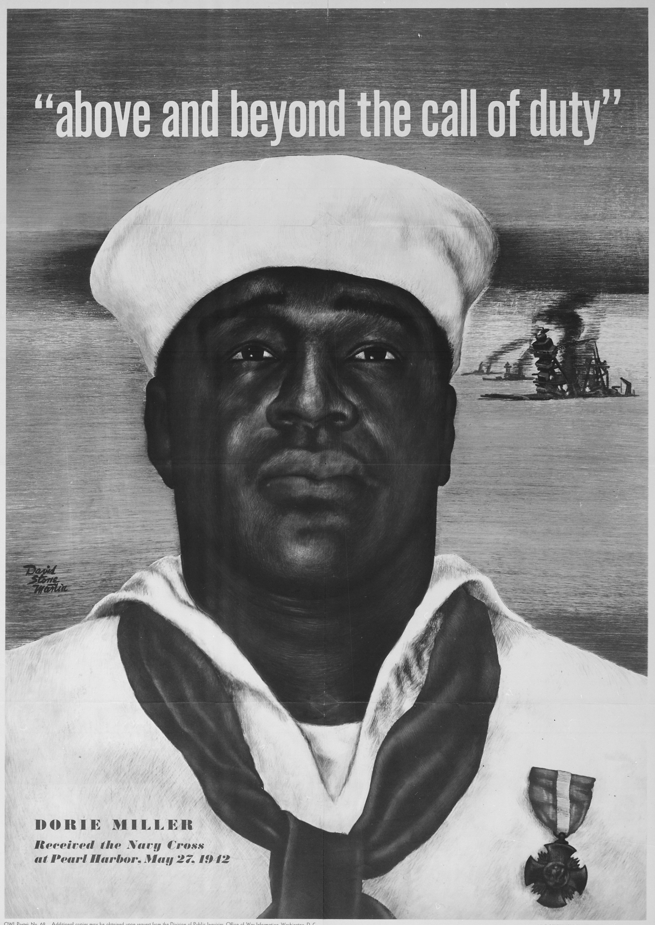 Scope and content: Color poster of Doris (Dorie) Miller by David Stone Martin